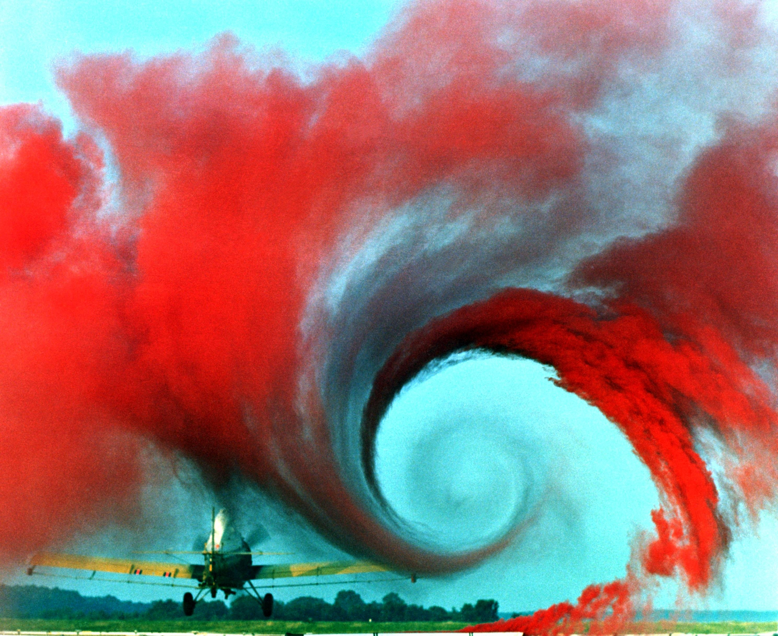 Wake Vortex Study at Wallops Island The air flow from the wing of this agricultural plane is made visible by a technique that uses colored smoke rising from the ground. The swirl at the wingtip traces the aircraft's wake vortex, which exerts a powerful influence on the flow field behind the plane. Because of wake vortex, the Federal Aviation Administration (FAA) requires aircraft to maintain set distances behind each other when they land. A joint NASA-FAA program aimed at boosting airport capacity, however, is aimed at determining conditions under which planes may fly closer together. NASA researchers are studying wake vortex with a variety of tools, from supercomputers, to wind tunnels, to actual flight tests in research aircraft. Their goal is to fully understand the phenomenon, then use that knowledge to create an automated system that could predict changing wake vortex conditions at airports. Pilots already know, for example, that they have to worry less about wake vortex in rough weather because windy conditions cause them to dissipate more rapidly.